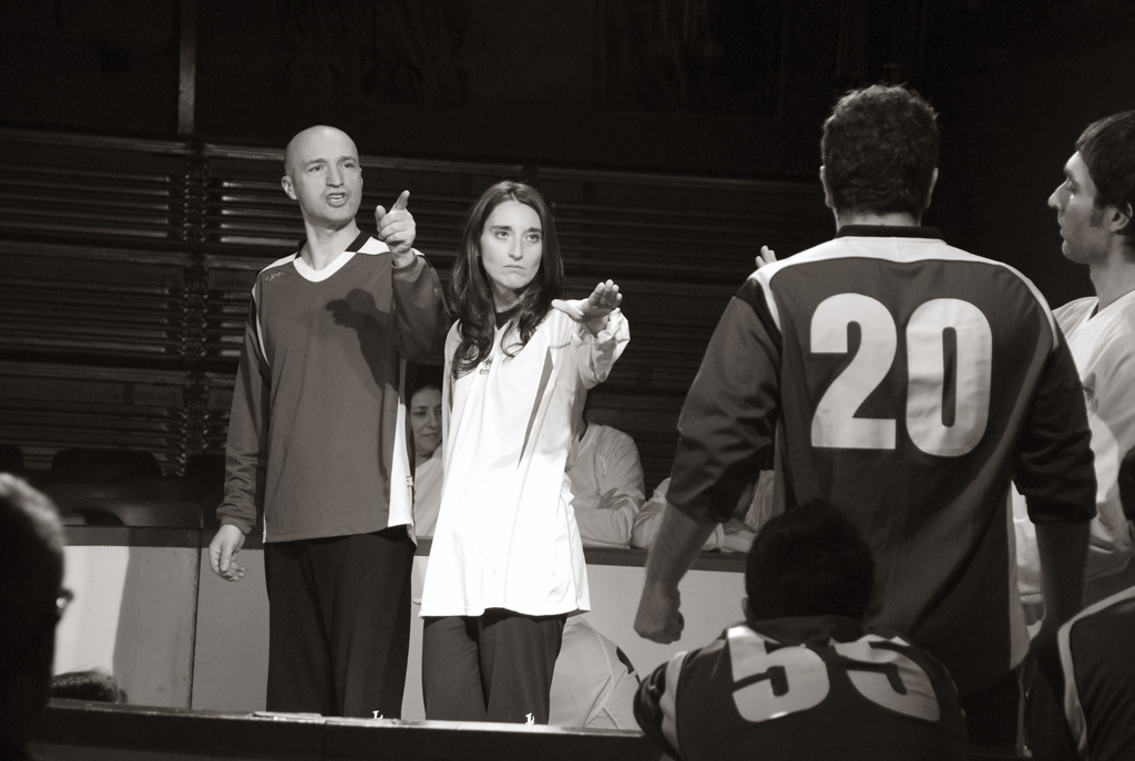 Theatresports, Florence, Italy.